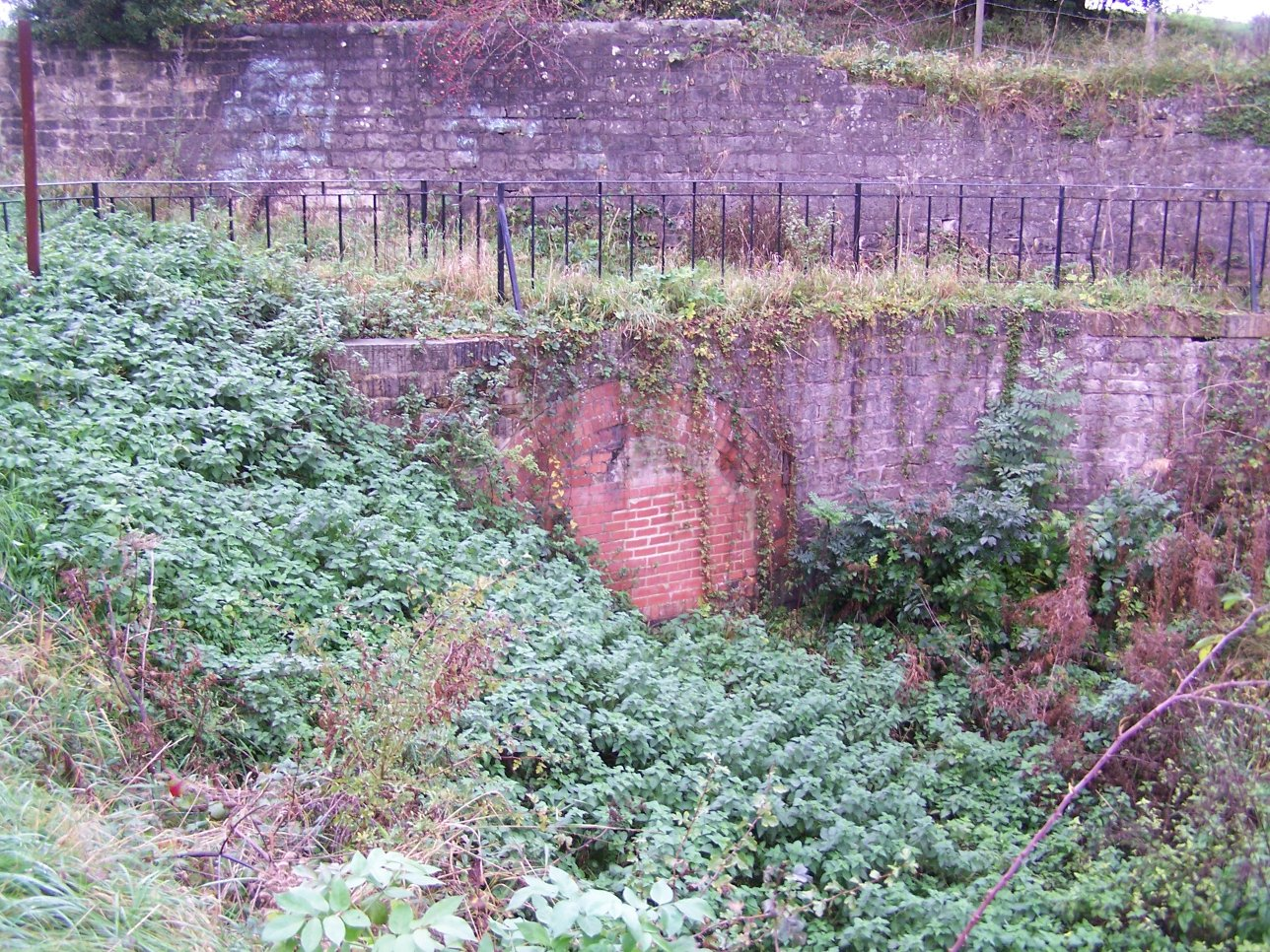 Author: Tina Cordon, Source: Own Picture Tina Cordon 16:19, 27 October 2006 (UTC)